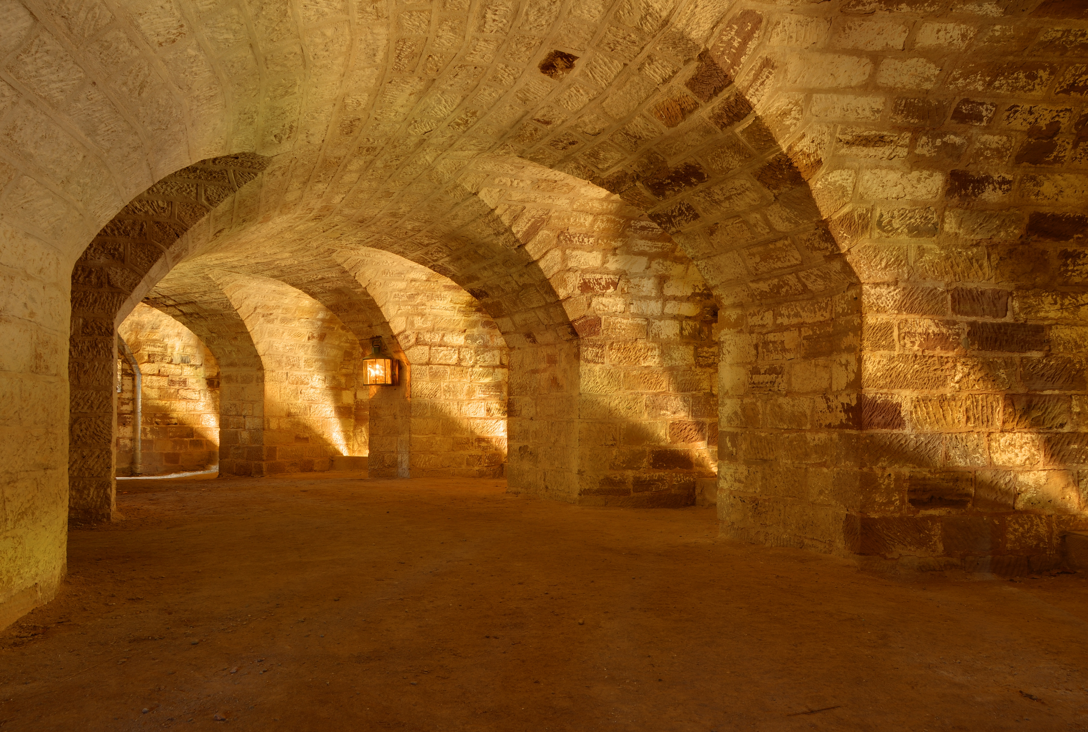 The Fort de Bois l'Abbé, in Uxegney, Lorraine, France. Inside view of the double Caponier.